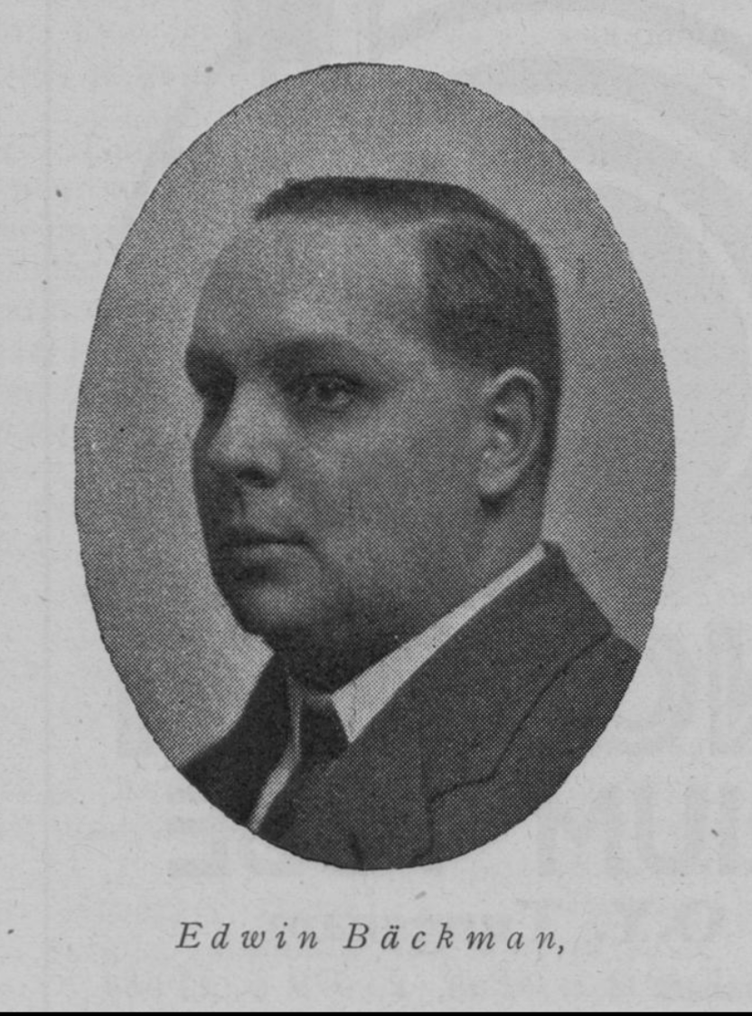 The Finnish singer Edvin Bäckman in 1928